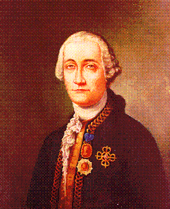 Spanish General Alejandro O'Reilly Alejandro O'Reilly .